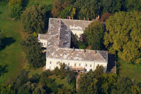 Téglás, Hungary, aerialphotography